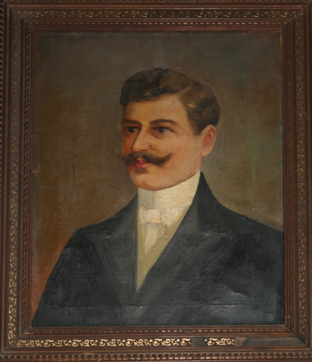 Painting of Mirko Seljan (1871-1913), Croatian explorer, taken during the Night of Museums at the Ethnographic Museum in Zagreb